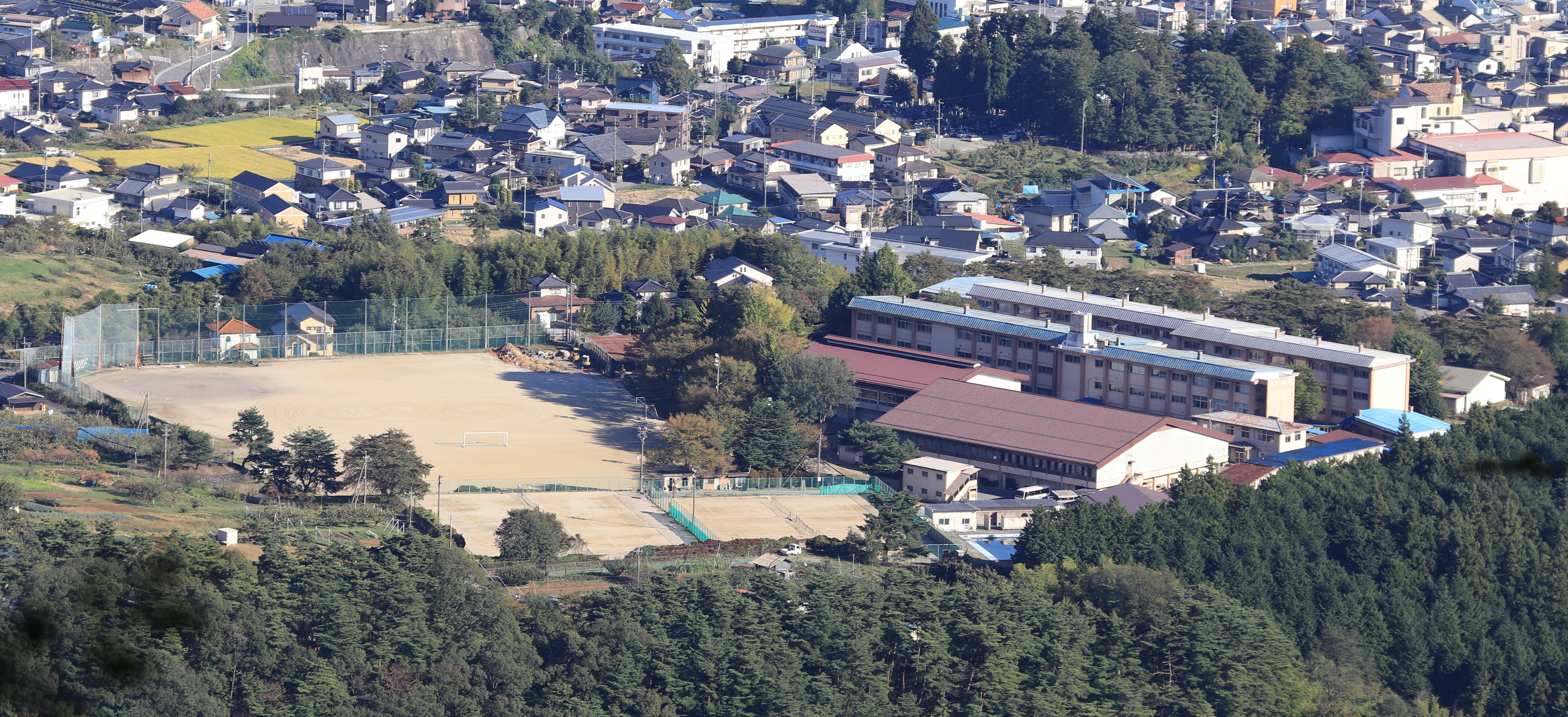 Iidafuetsu High School seen form Mount Kazakoshi (Mount Kokuzo) in Iida, Nagano Prefecture, Japan.